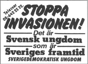 Sticker from Sverigedemokratisk ungdom